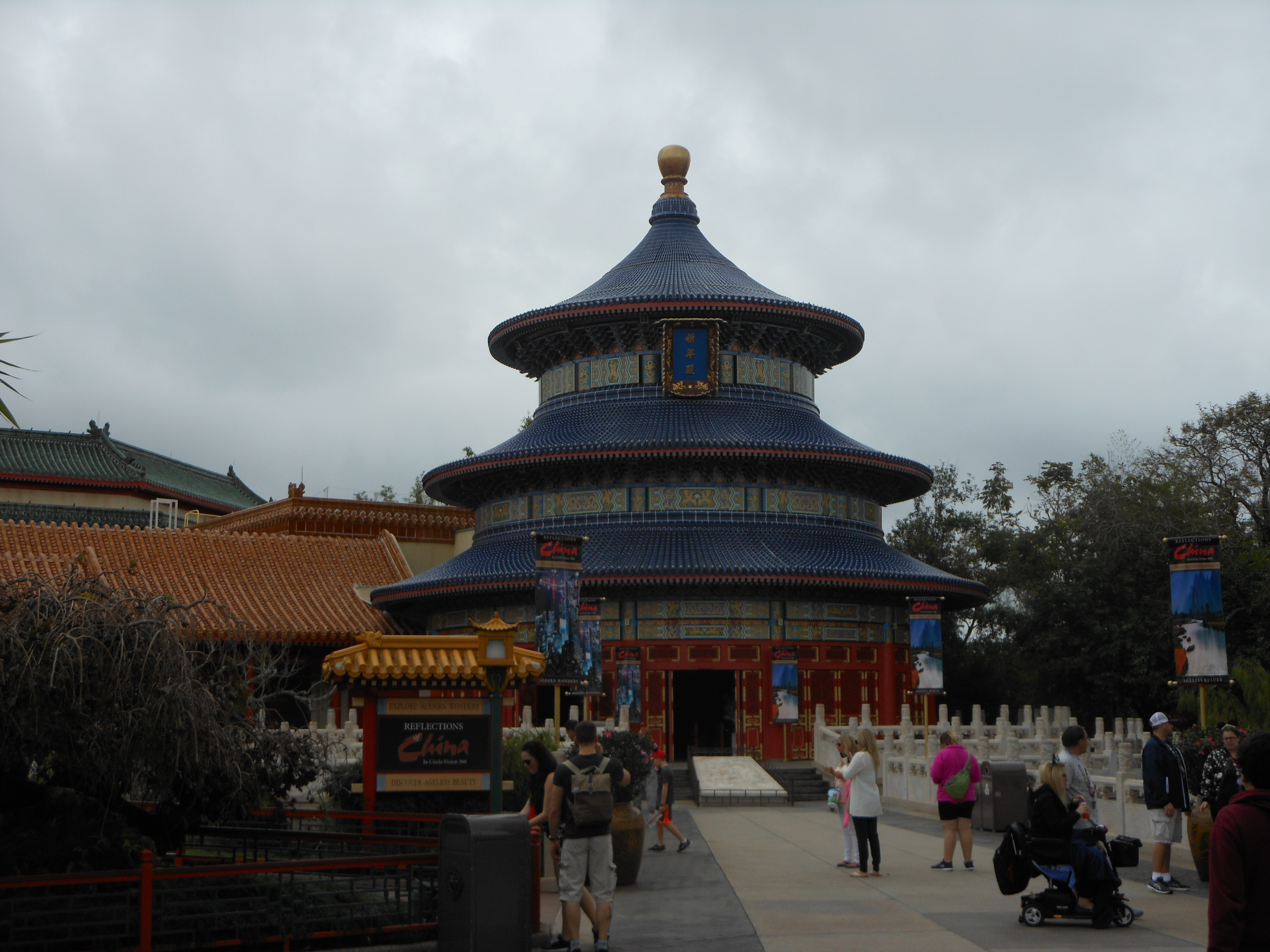 The China pavilion at Epcot.